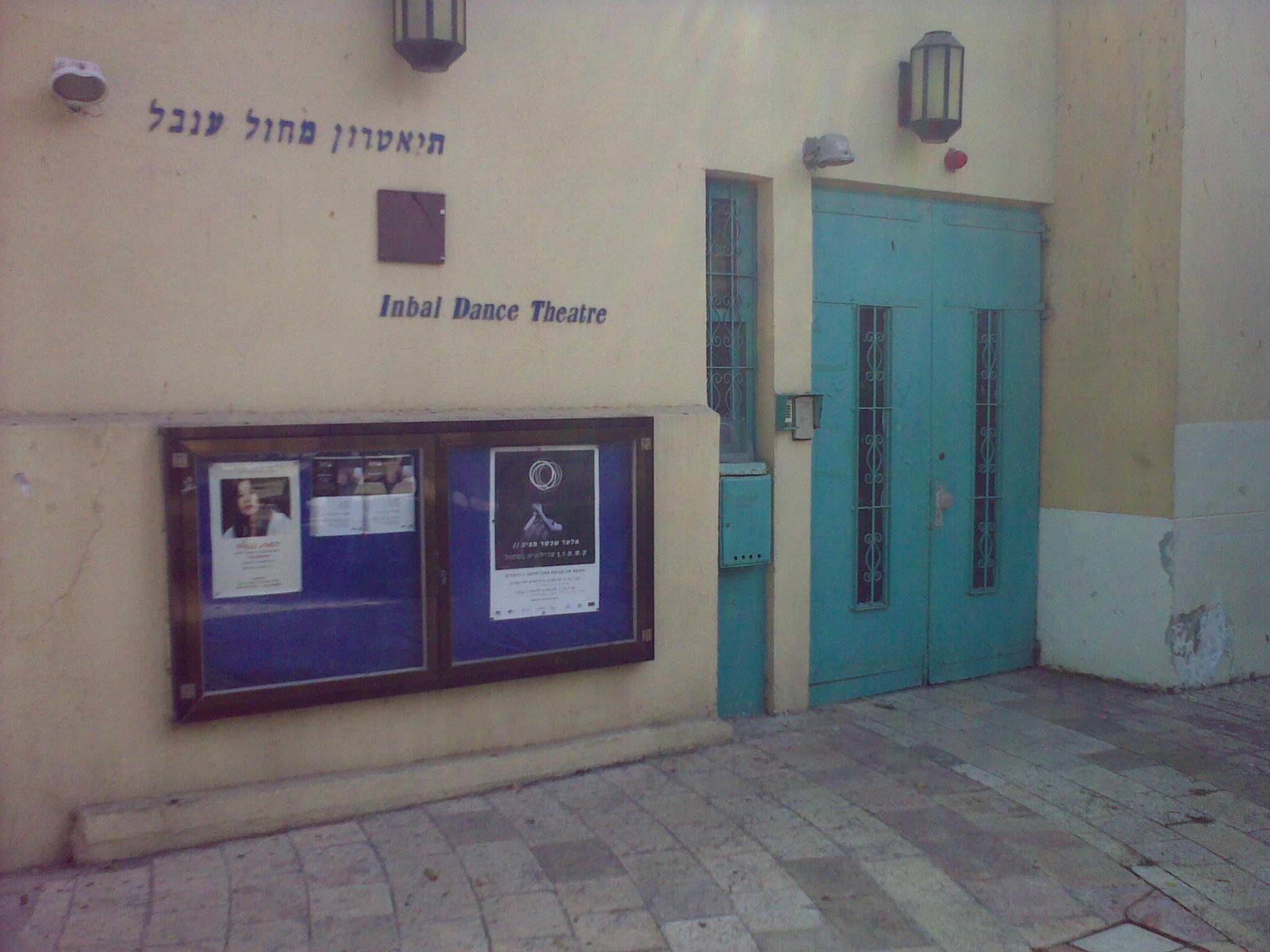 Suzanne Dellal Centre - Inbal Dance theatre.